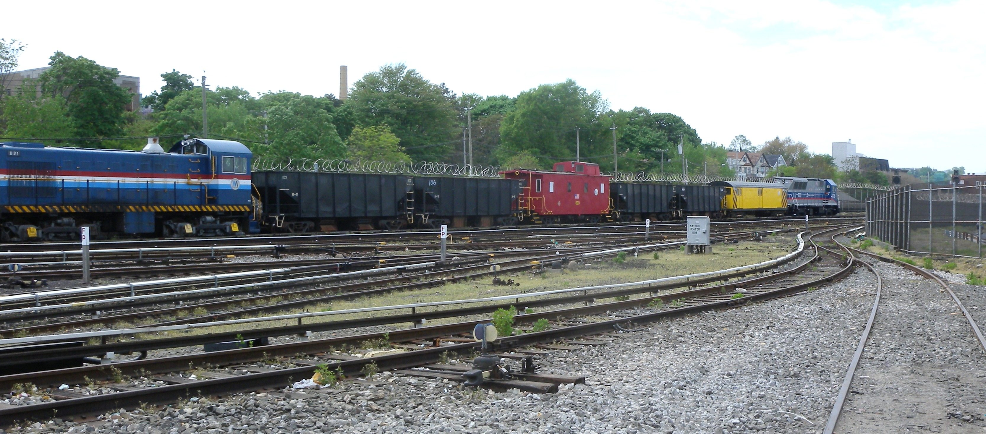 Looking northwest from Front Street at Clifton Yard on a hazy midday during 5BBT.